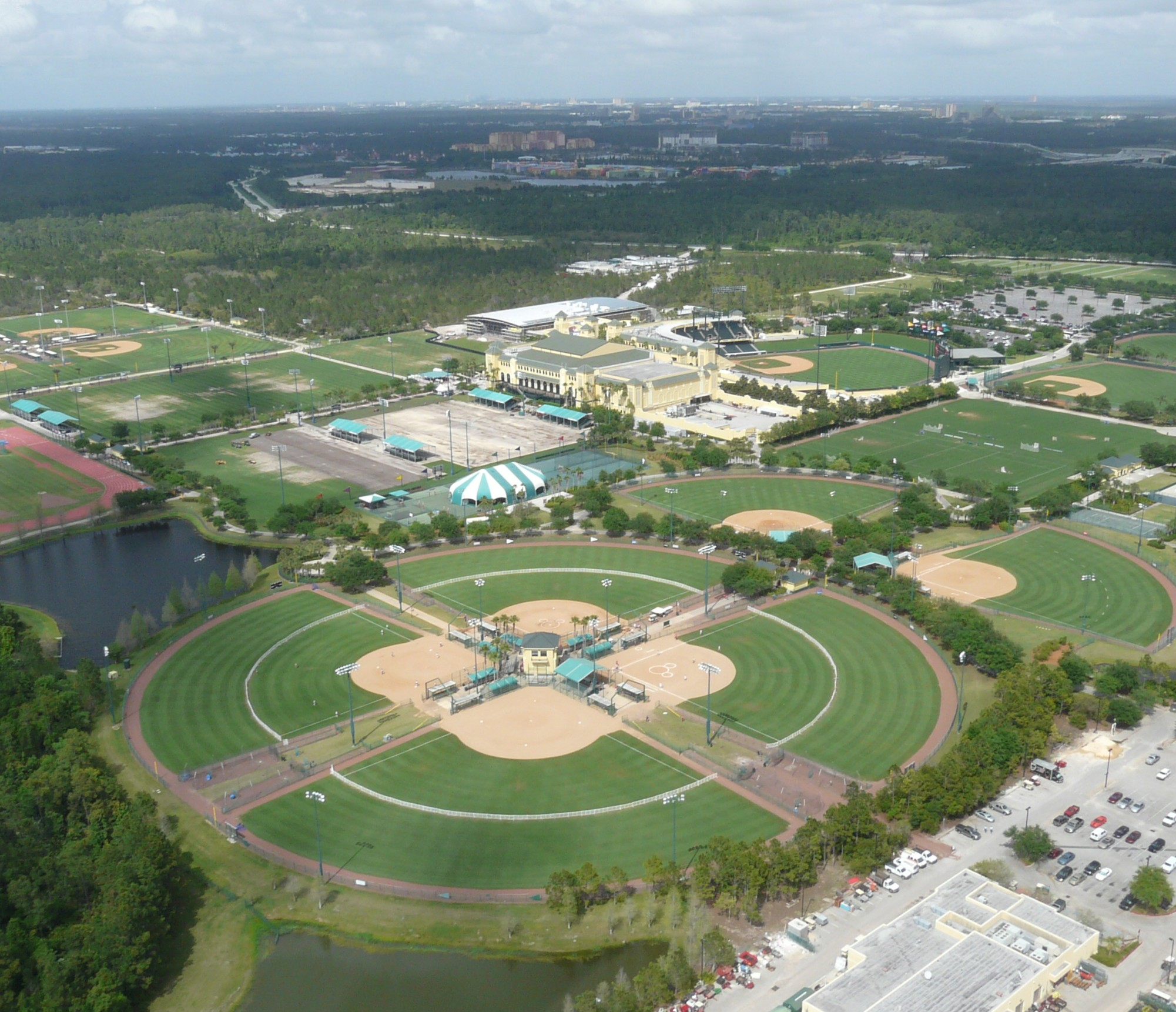 Disney Wide World Of Sports complex, Disney World, Florida / 2008